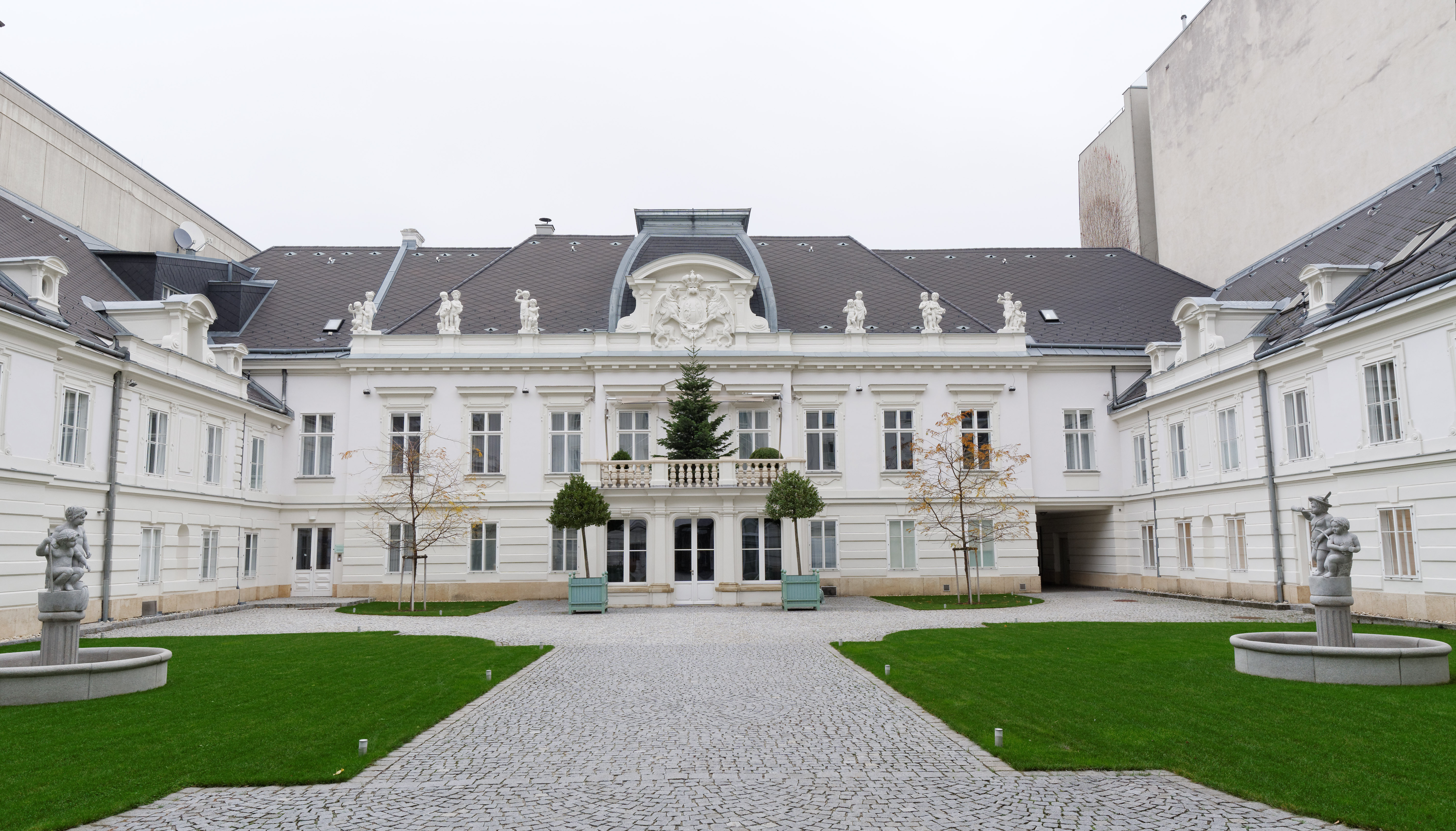 Former Palais Archduke Carl Ludwig at the 4. district of Vienna, Austria